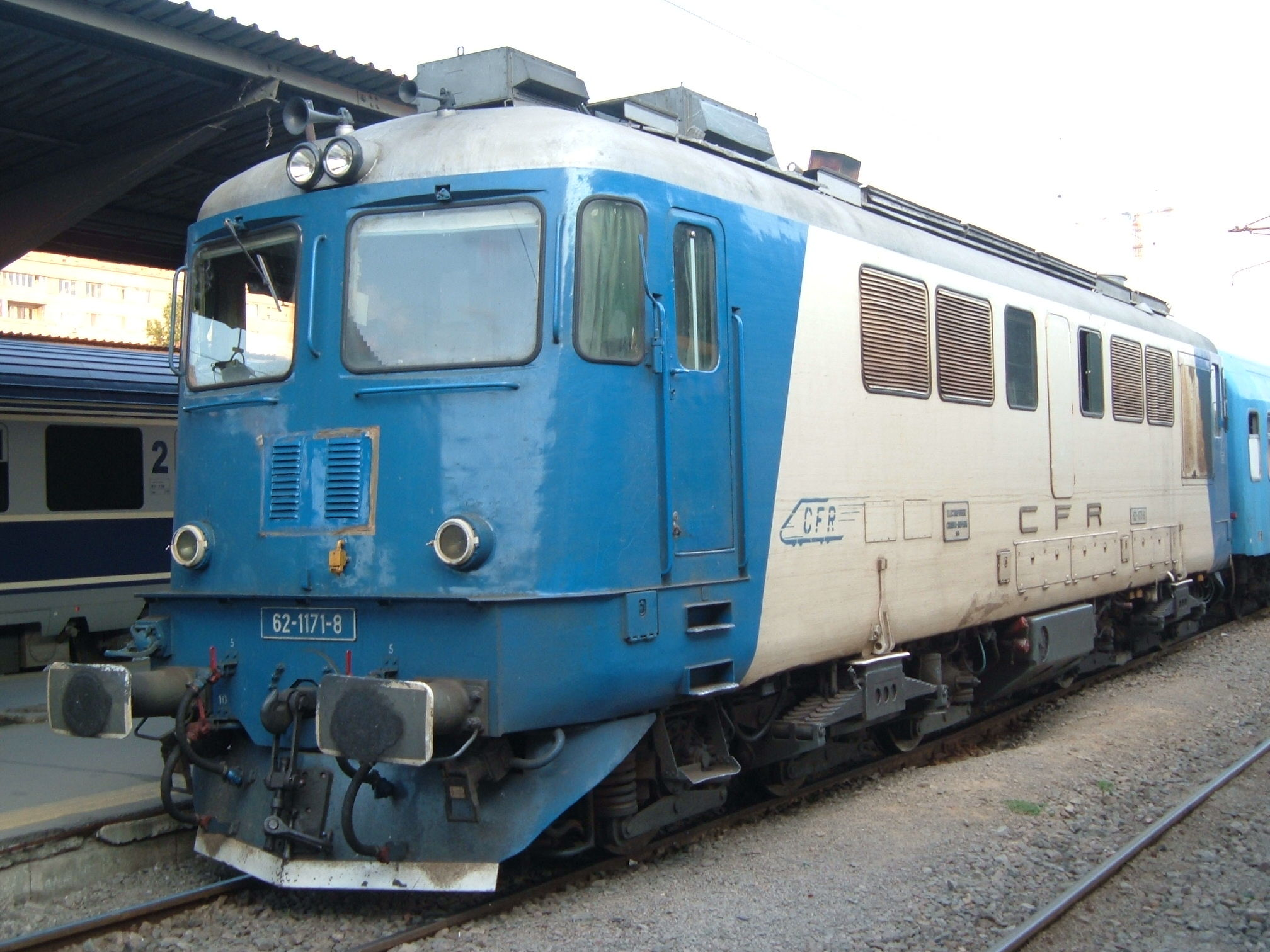 CFR Class 62 locomotive in Bucureşti Nord station. Park number 62-1171-8